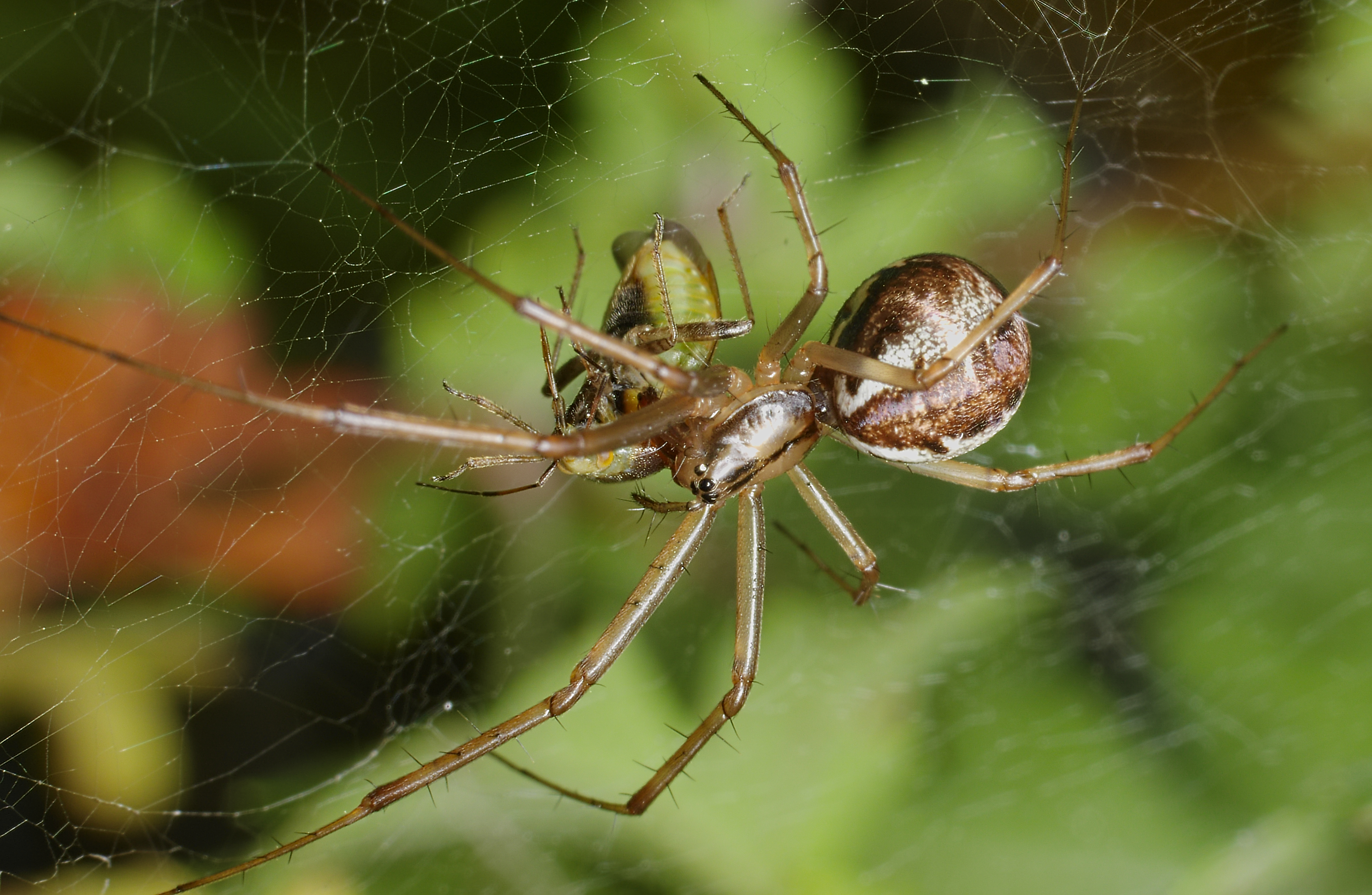 Linyphia triangularis, female. Taken in Mannheim-Vogelstang, Baden-Württemberg, Germany.